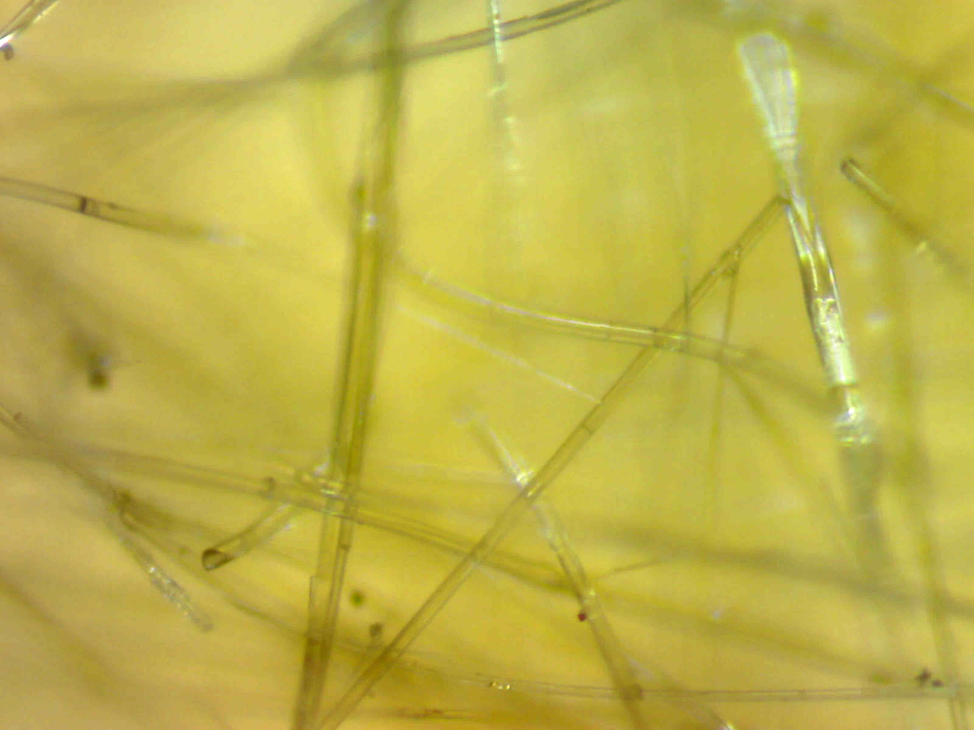 Close-up view of rockwool insulation fibres.